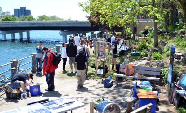 Photo of an "Art at the Park" event